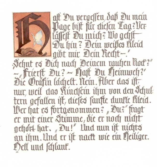 Calligraphic Edition of Rainer Maria Rilke, Die Weise von Liebe und Tod des Cornets Christoph Rilke, by Gerhard Halbritter (1946), Tübingen